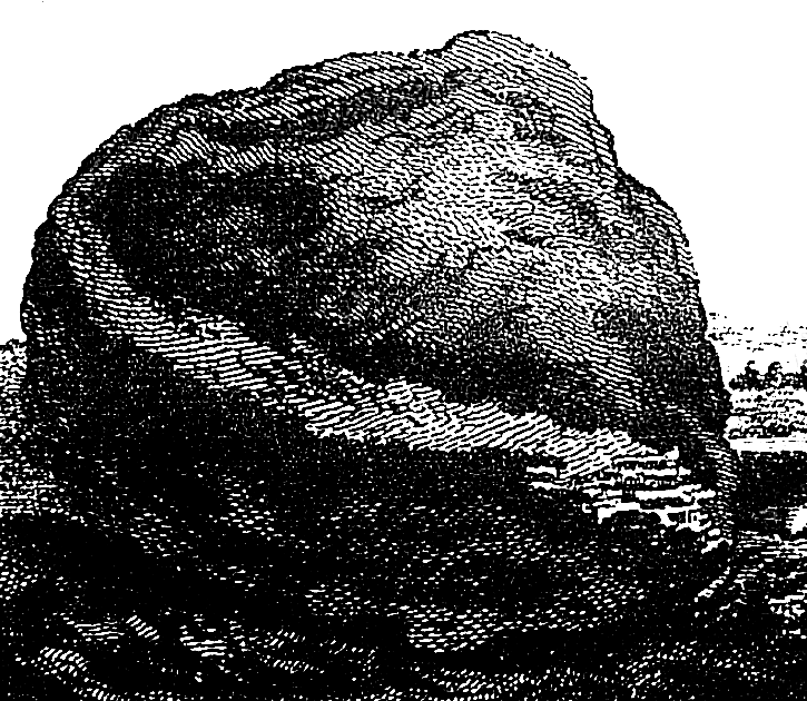 Pallas Iron, 1788